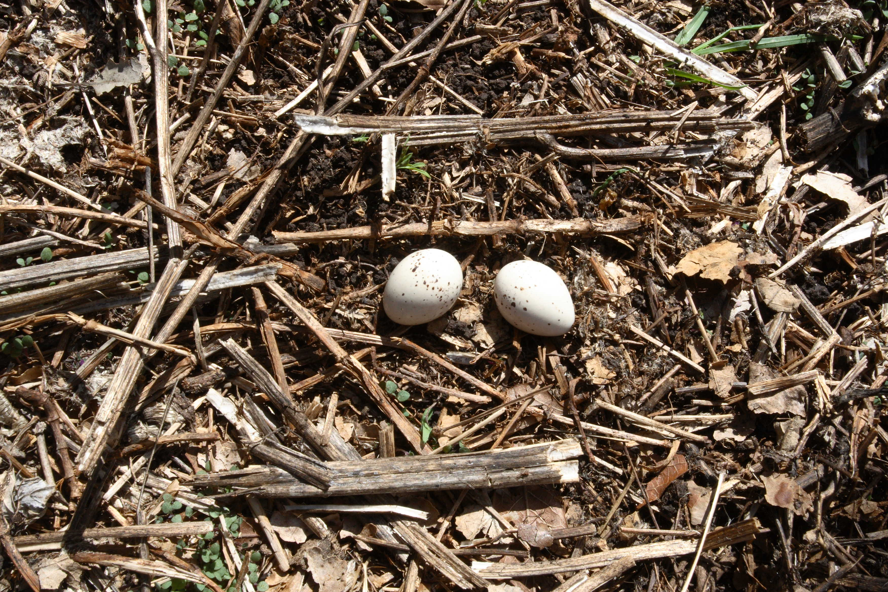 Great Kisakadee Pitangus sulphuratus eggs from a nest near El Copey de Dota, Costa Rica